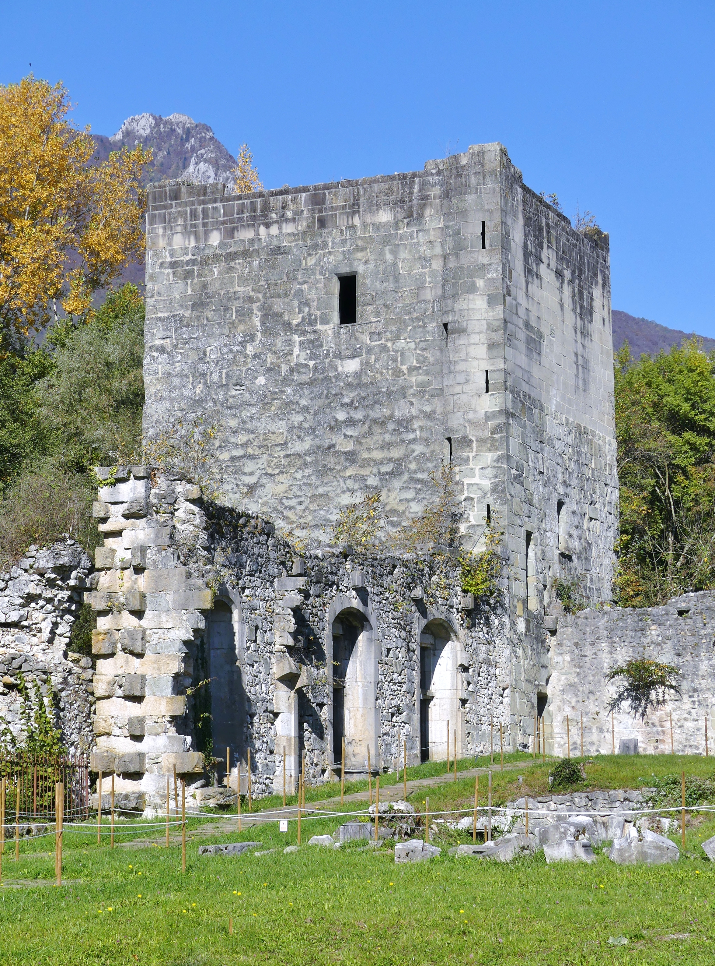 Sight of the ruined tower of the Château du Bourget castle, in Le Bourget-du-Lac, Savoie, France. At the background can be seen the Dent du Chat mountain.